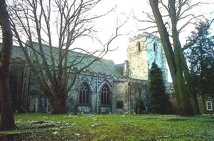 Holy Trinity parish church, Micklegate, York